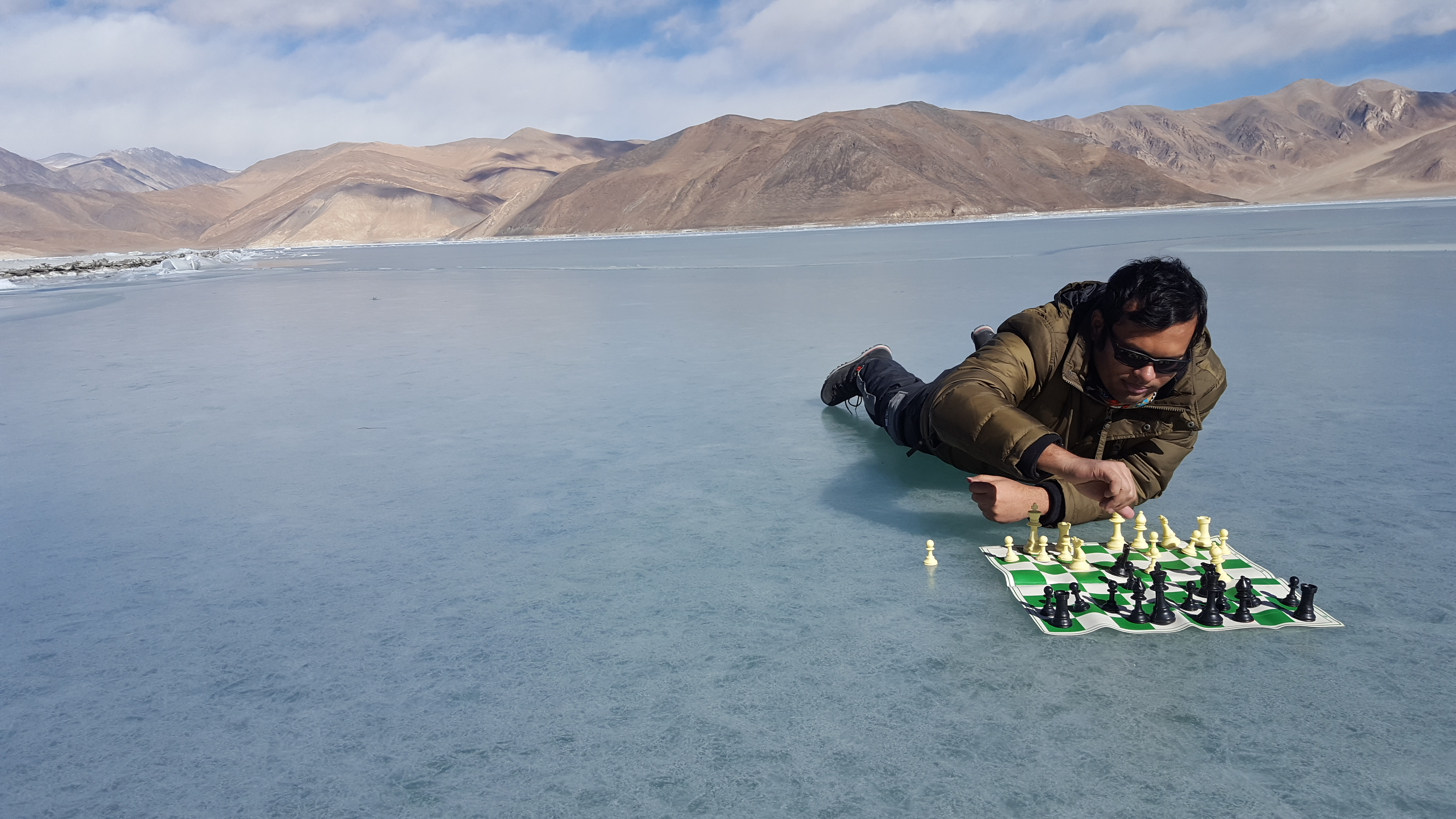 at Ladaakh